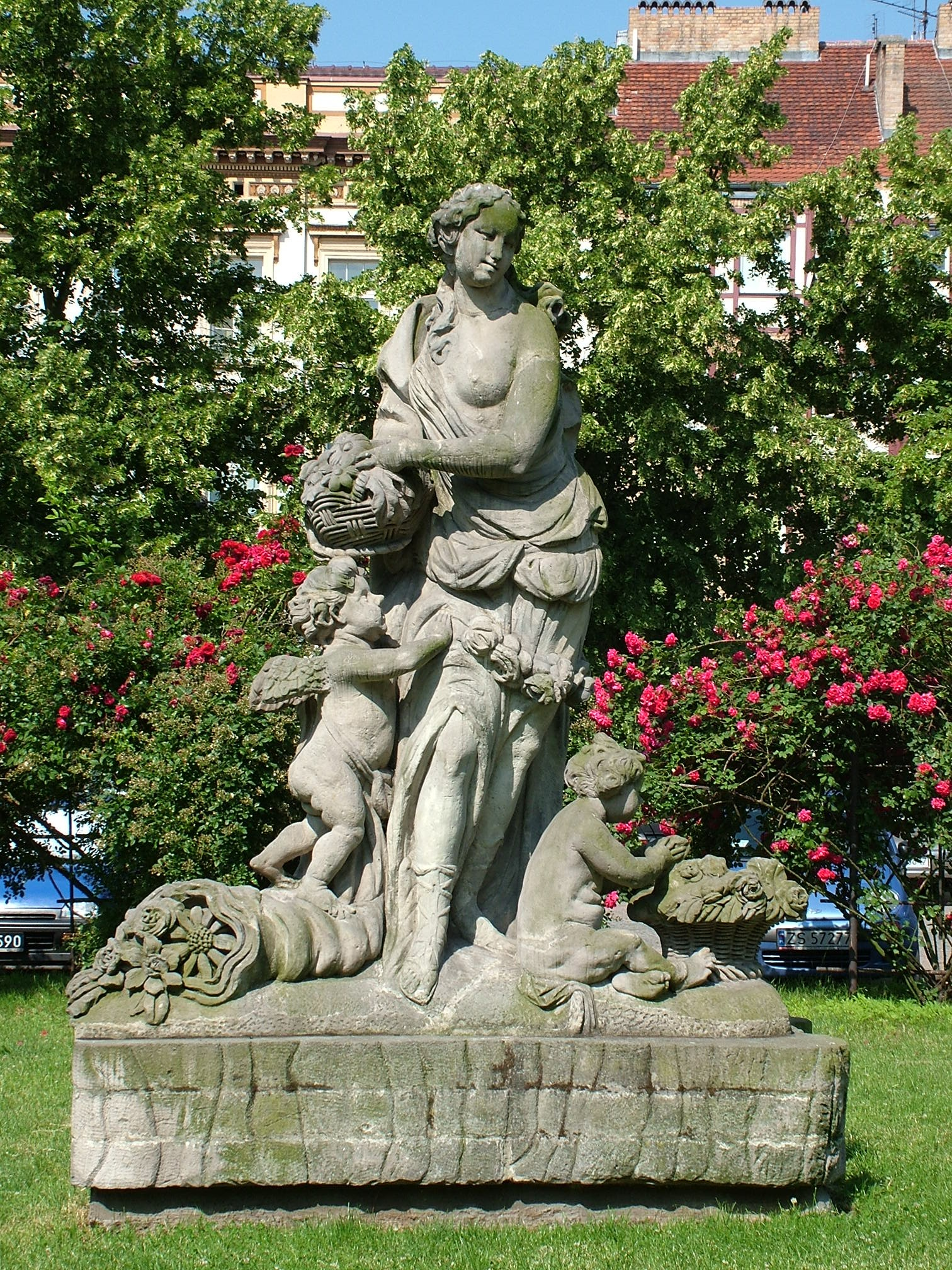 Monument of Flora, on White Eagle square.